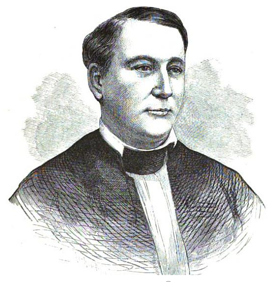 Portrait of Thomas William Ward, hero of the Siege of Bexar, mayor of Austin, US Consul to Panama